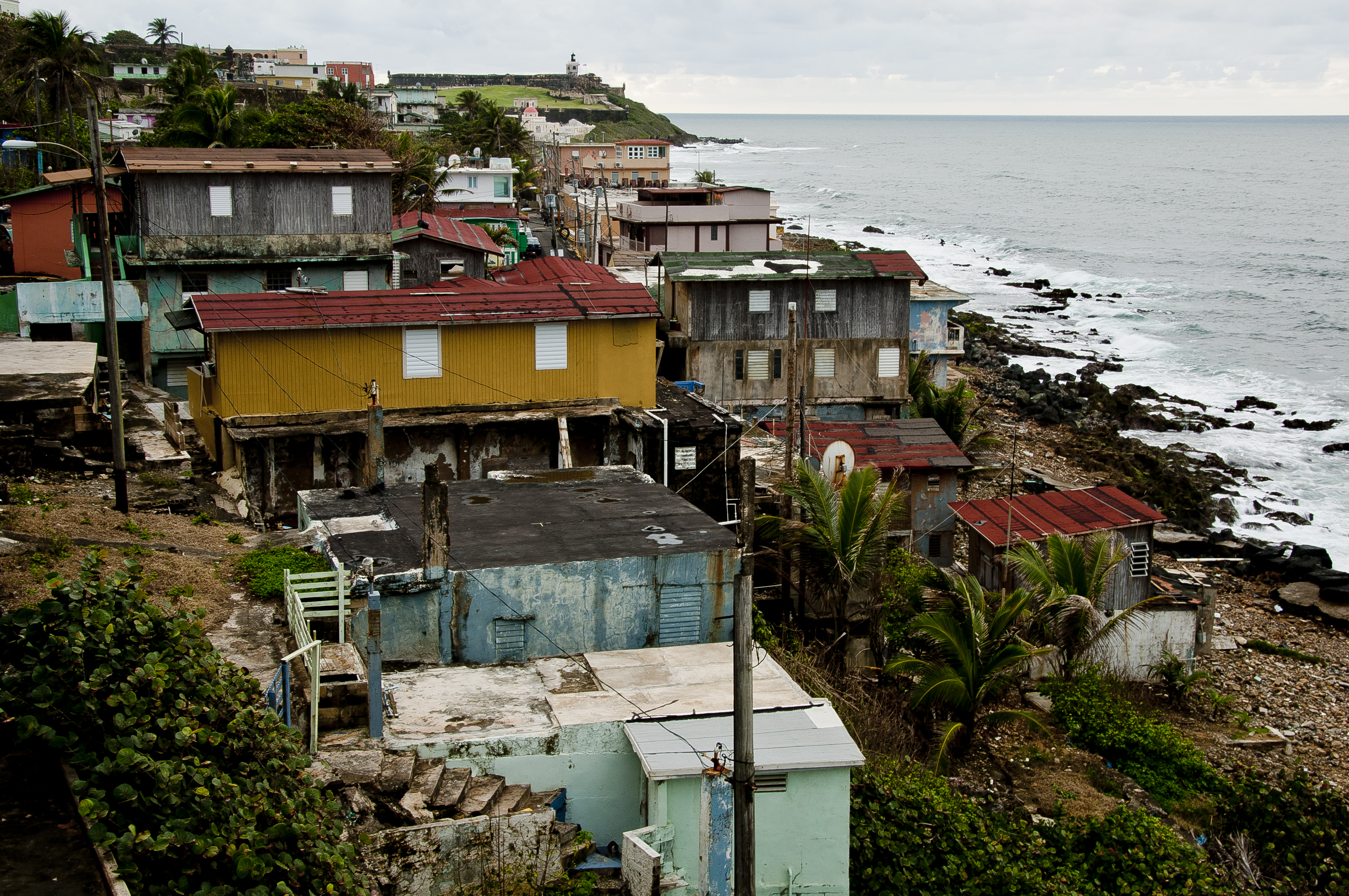 San Juan National Historic Site, Old San Juan